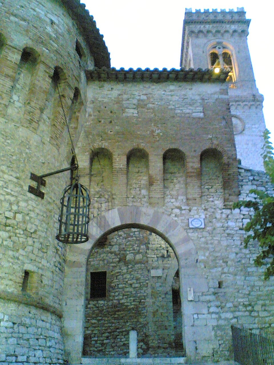 The principal enter of Corciano fortified medieval town; near the arc, the cylindric tower and on the background the main tower in the center of the town.